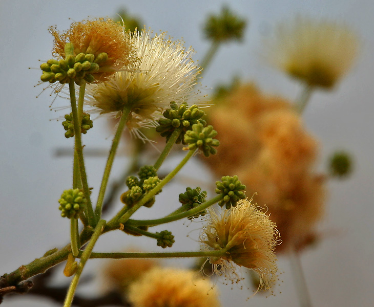 Bitter albizia Albizia amara in Mahavir Harina Vanasthali National Park, Hyderabad, India.